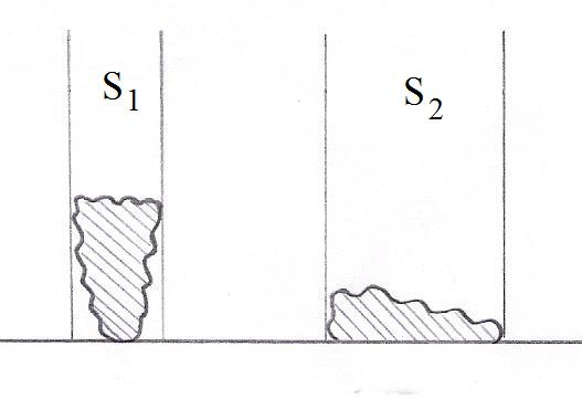 dsequivalent3